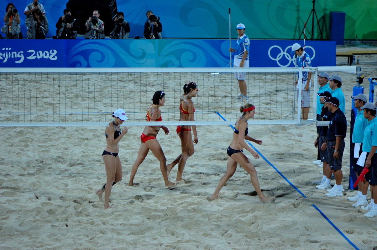 Beijing Olympics, Women's Beach Volleyball, Quarterfinals. Left to right : Elaine Youngs (USA), Zhang Xi (China), Xue Chen (China) and Nicole Branagh (USA).